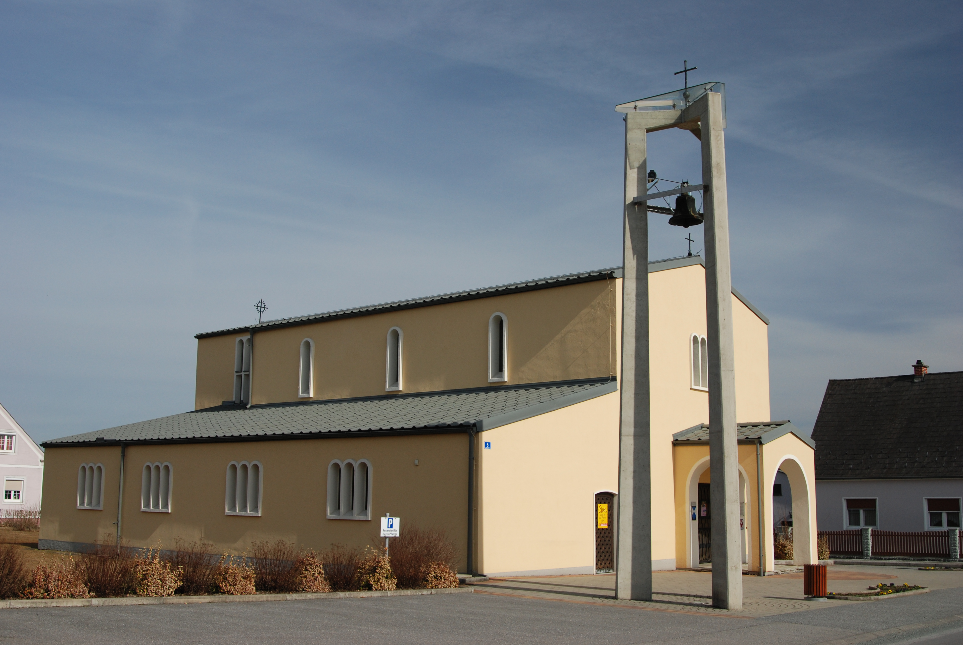 Katholische Kirche Markt Allhau